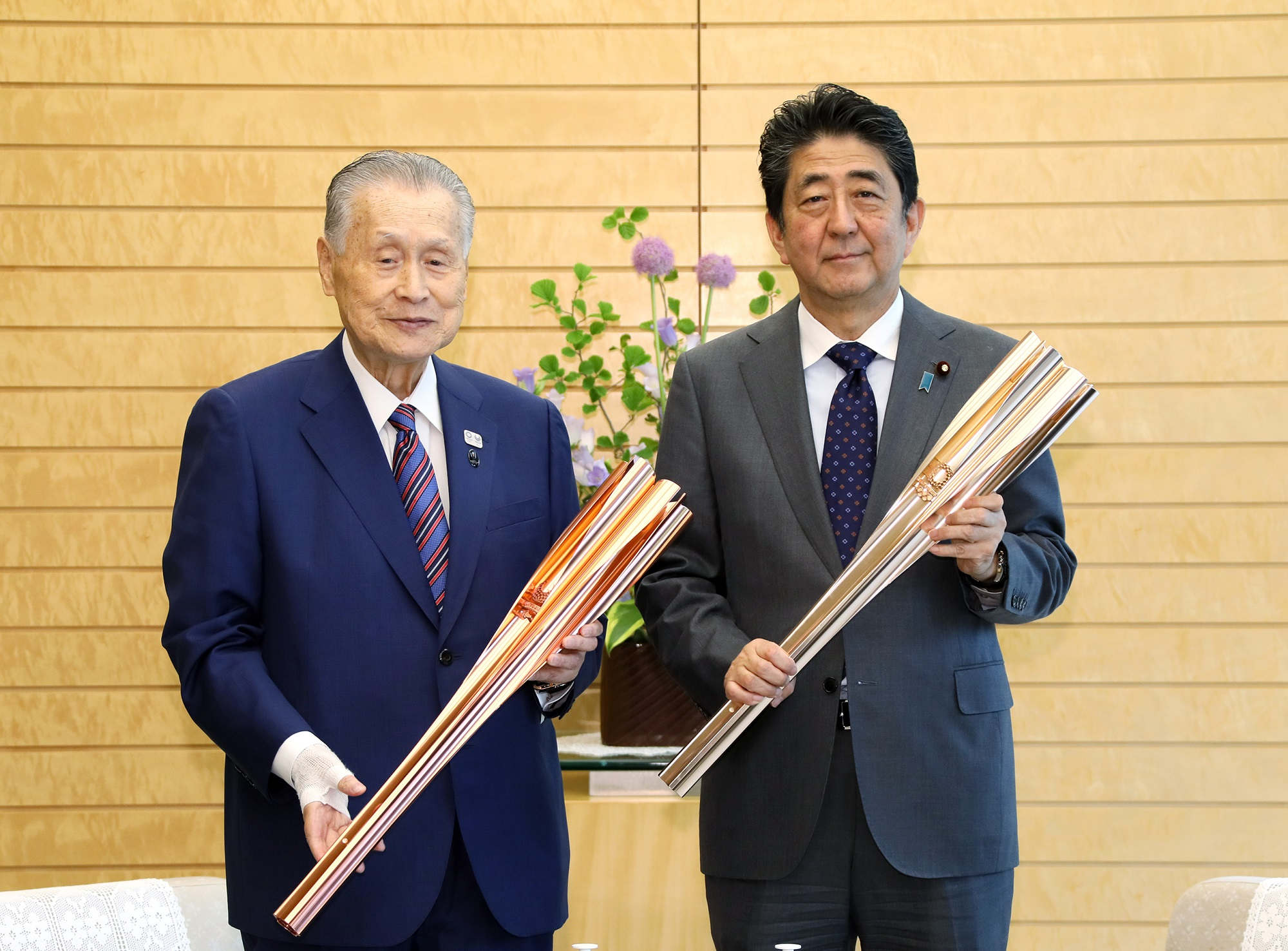 Former Prime Minister of Japan Yoshirō Mori and current Prime Minister Shinzō Abe.